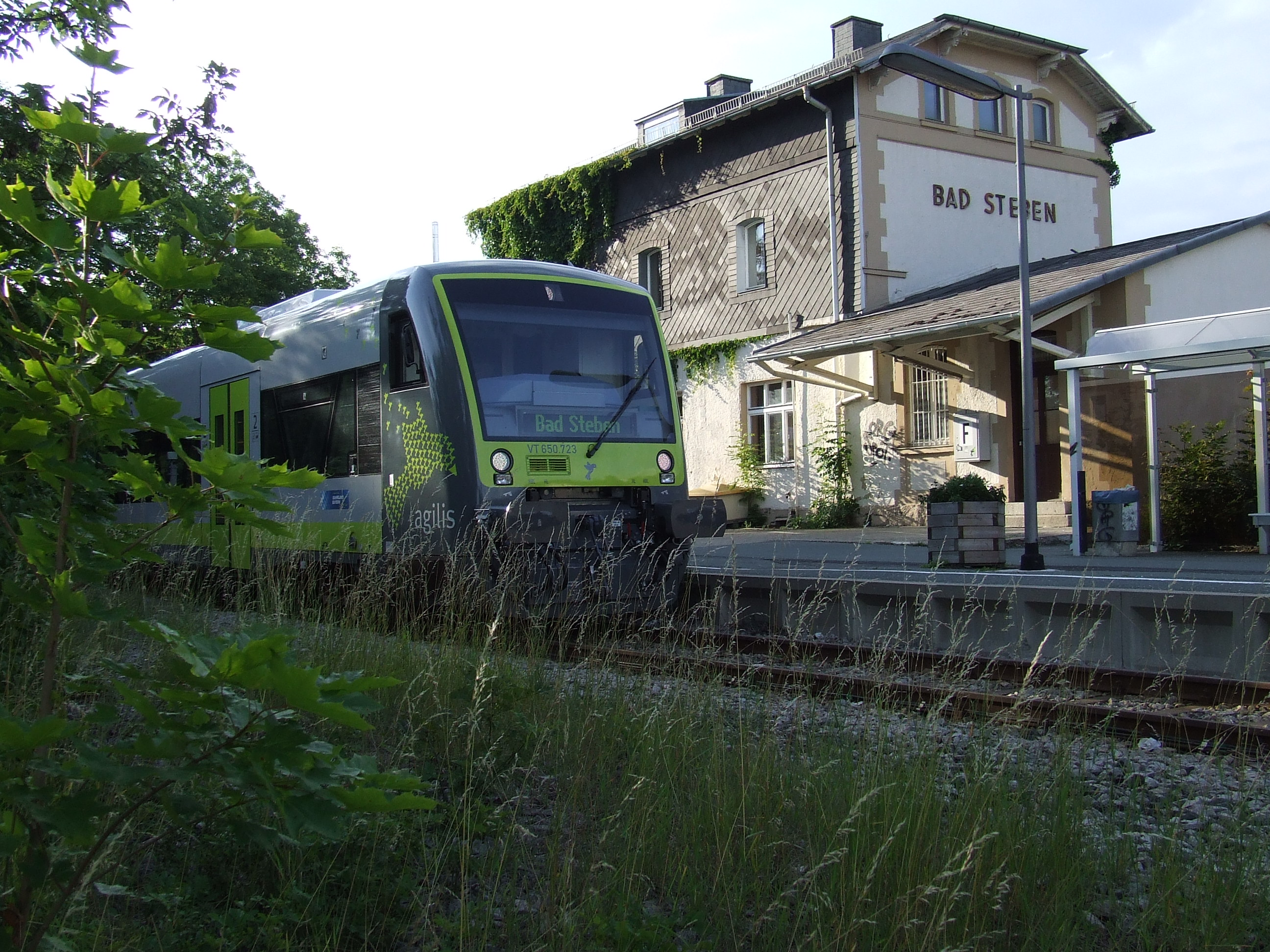 Regioshuttle RS1 at the Trainstation of Bad Steben